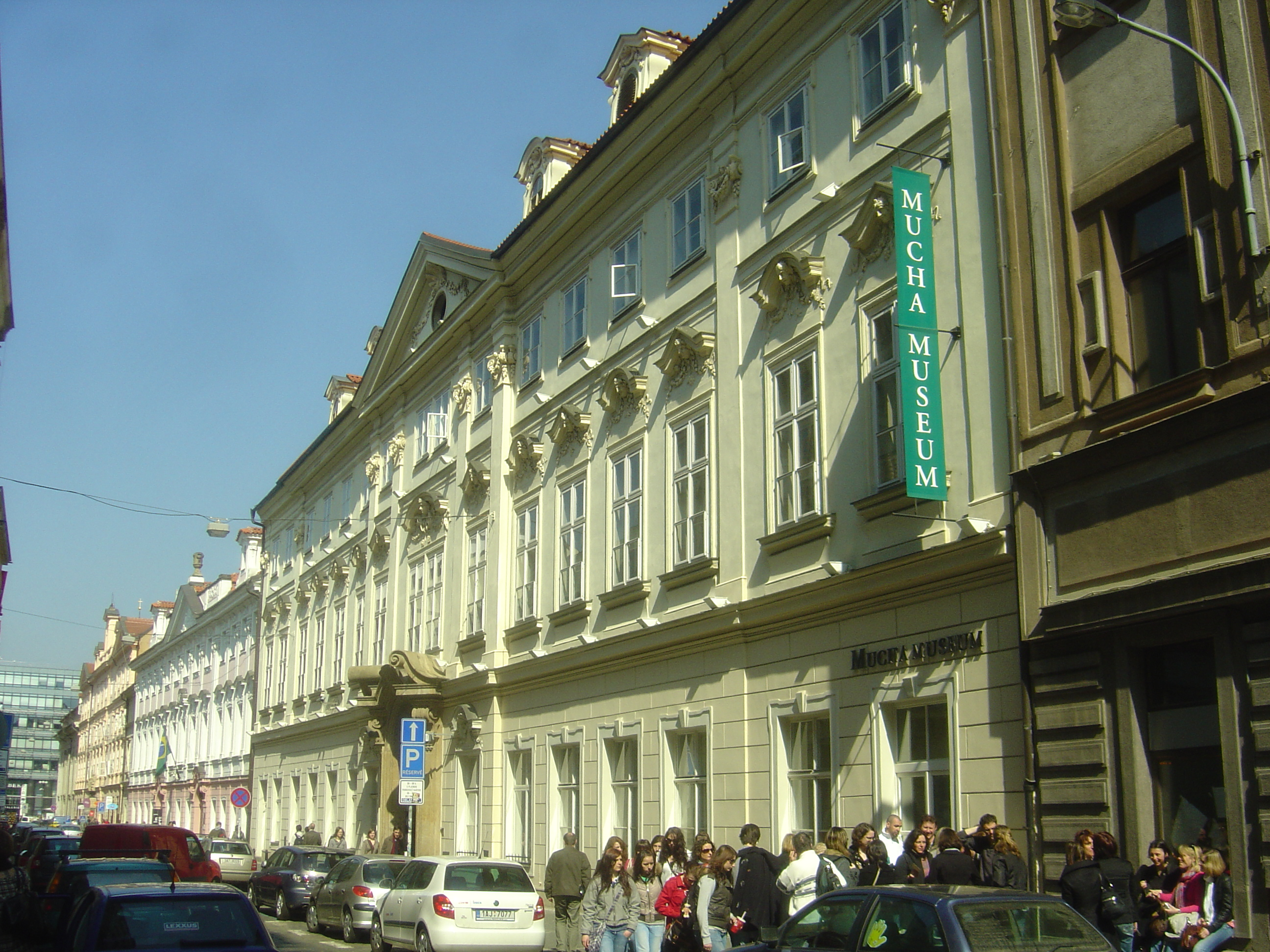 Mucha Museum in Prague